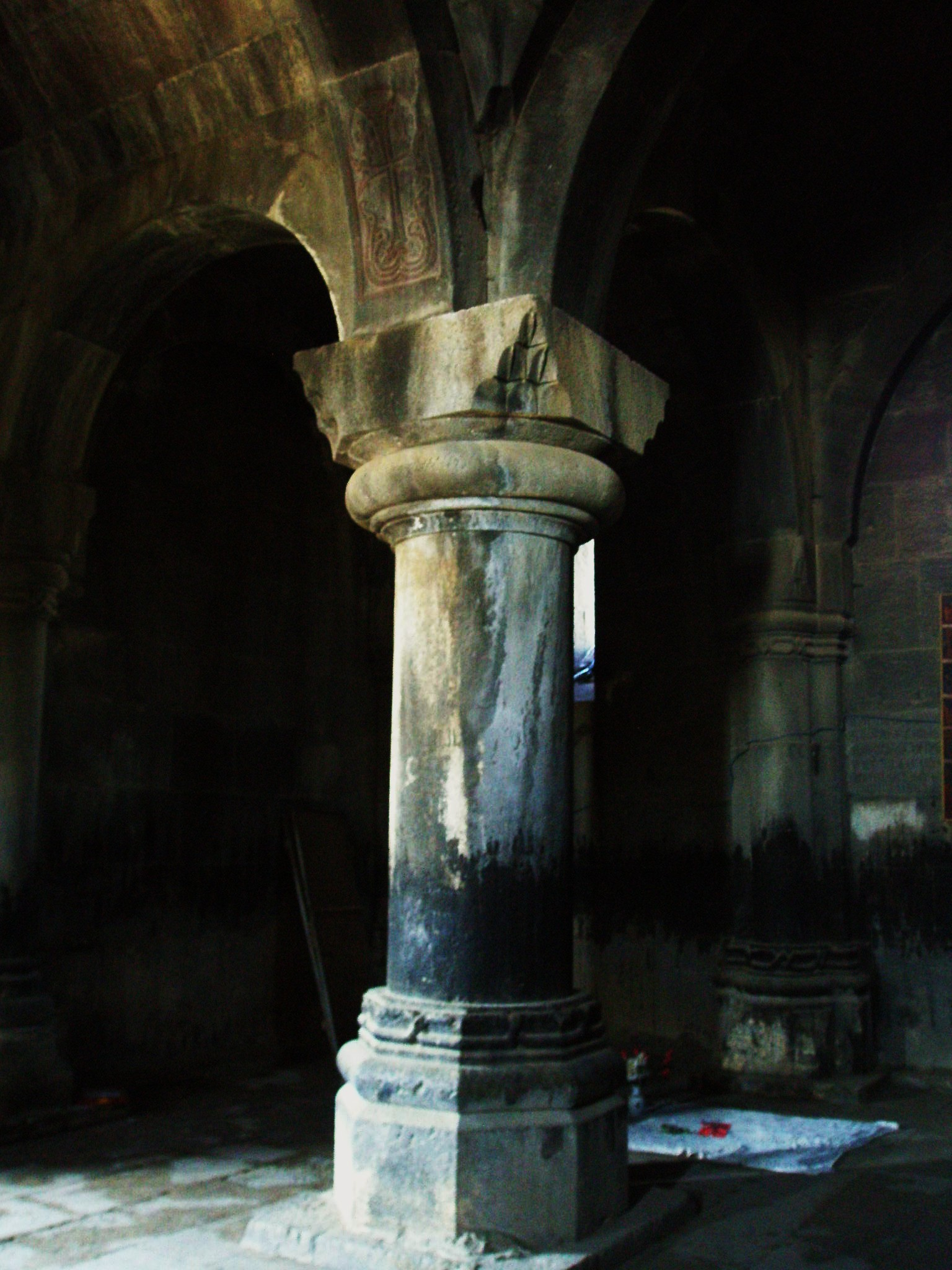 Gavit column of Tegher Monastery